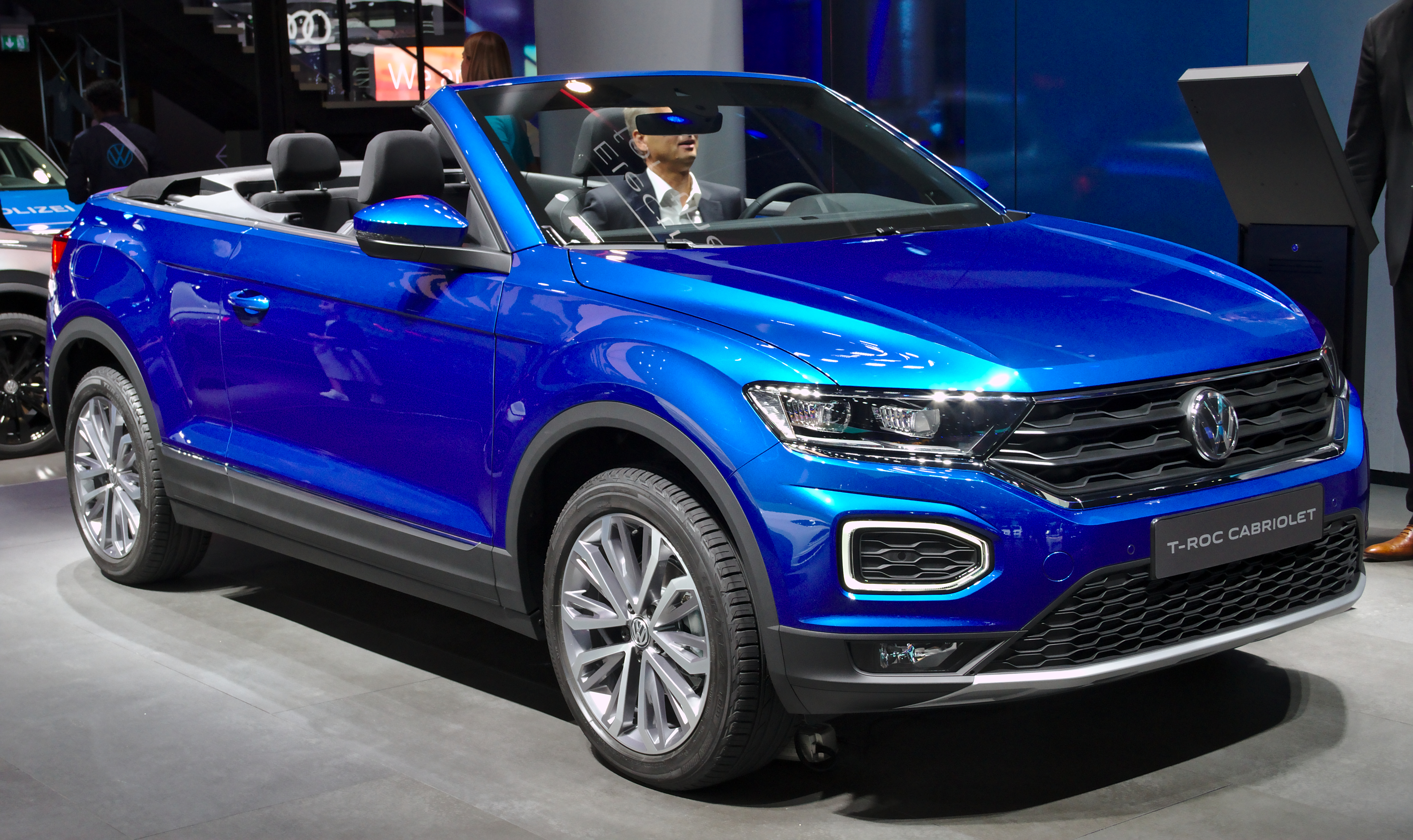 Volkswagen_T-Roc_Cabriolet at IAA 2019